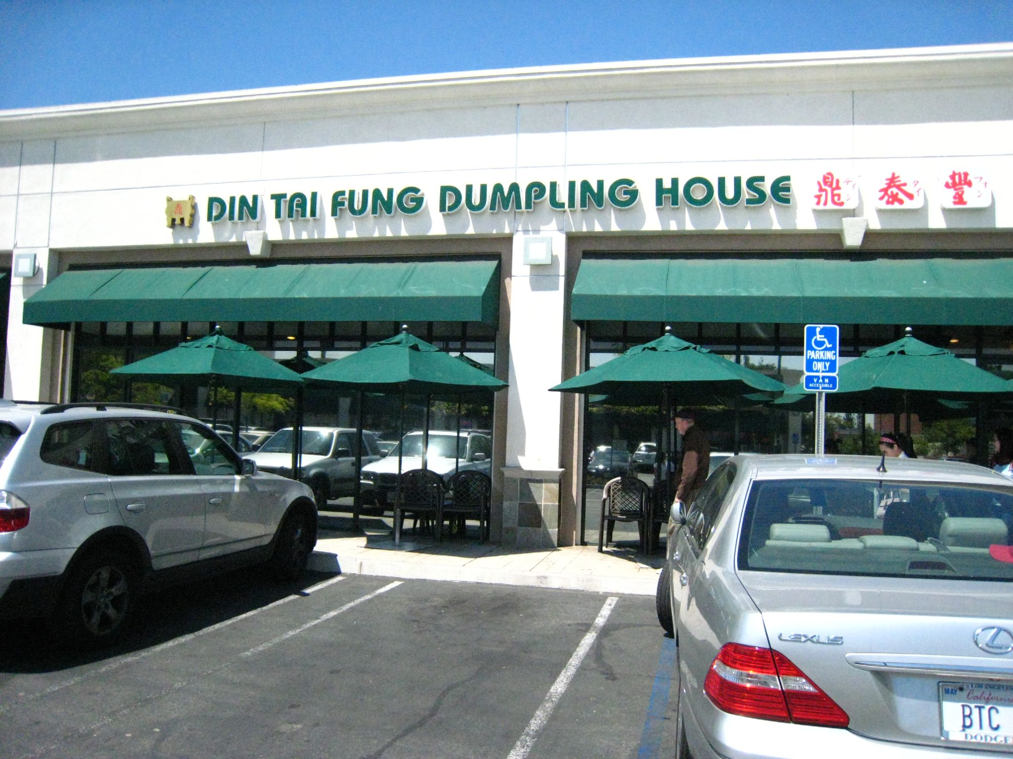 Din Tai Fung in Los Angeles (Official site)